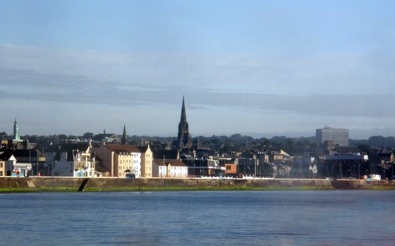 Kirkcaldy, Scotland